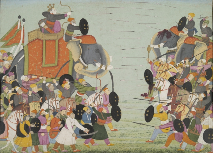 Battle between Balarama and Jarasandha. Illustration from a Bhagavata Purana series. ca. 1760 - 1765 Artist: Unknown The Vera M. and John D. MacDonald, B.A. 1927, Collection, Gift of Mrs. John D. MacDonald 2001.138.32 The Bhagavata Purana, "The Ancient Story of God," a chronicle of Vishnu, was a major subject of Indian miniature painting. Books 10 and 11, which describe the career on earth of Vishnu's eighth incarnation, Krishna, were frequently illustrated. This large illustration comes from such a series created in the Punjab Hills state of Basohli during the third quarter of the eighteenth century. It depicts a battle between Balarama, Krishna's elder brother, and Jarasandha that took place after Krishna had abducted his future principal wife, Rukmini, on her wedding day. The opposing sides face each other while arrows fly across the intervening space. In the poses of the figures and in the attention to detail the image shows a close relationship to the Mughal style of painting practiced in Guler, another of the Punjab Hills states. The Mughal style ultimately eclipsed the earlier Basohli style. Medium: Opaque watercolor and gold on paper Dimensions: Without mounting: 27.2 x 37.6cm (10 11/16 x 14 13/16in.) With mounting: 46.2 x 54.5cm (18 3/16 x 21 7/16in.) Sheet: 30 x 40.5cm (11 13/16 x 15 15/16in.) Image: 27.9 x 38.1cm (11 x 15in.) Geog. Data: Period: Mughal Period (1526 - 1857) Culture Indian